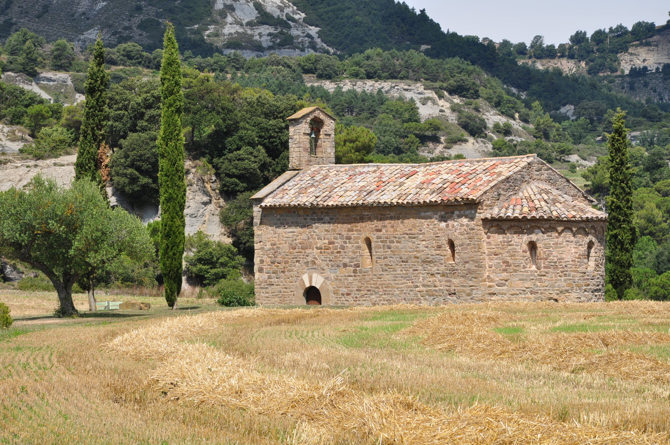 The Sant Miquel de Vilageliu, a 10th century church near Tona (Catalonia, Spain).